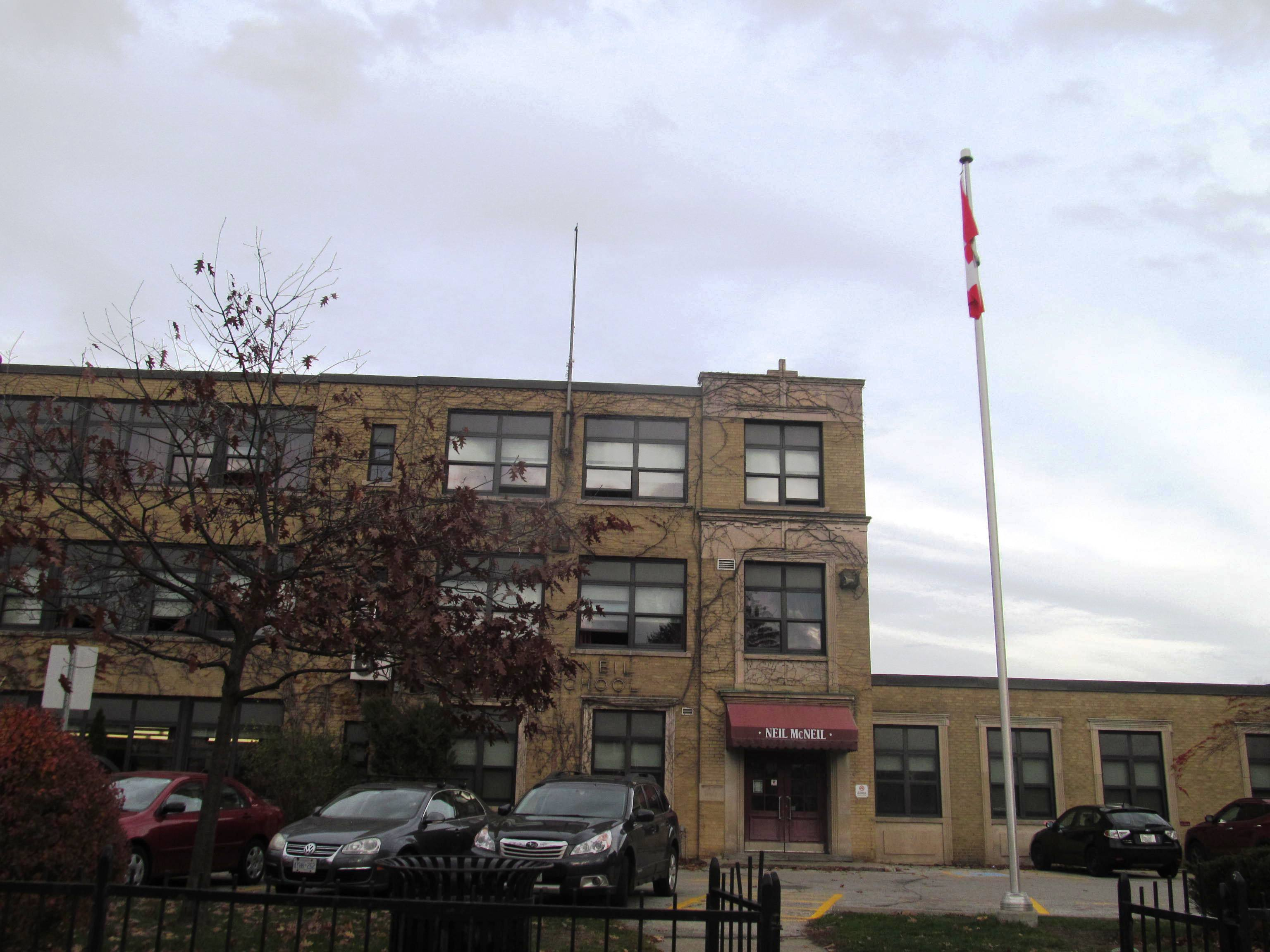 A front view of Neil McNeil High School.